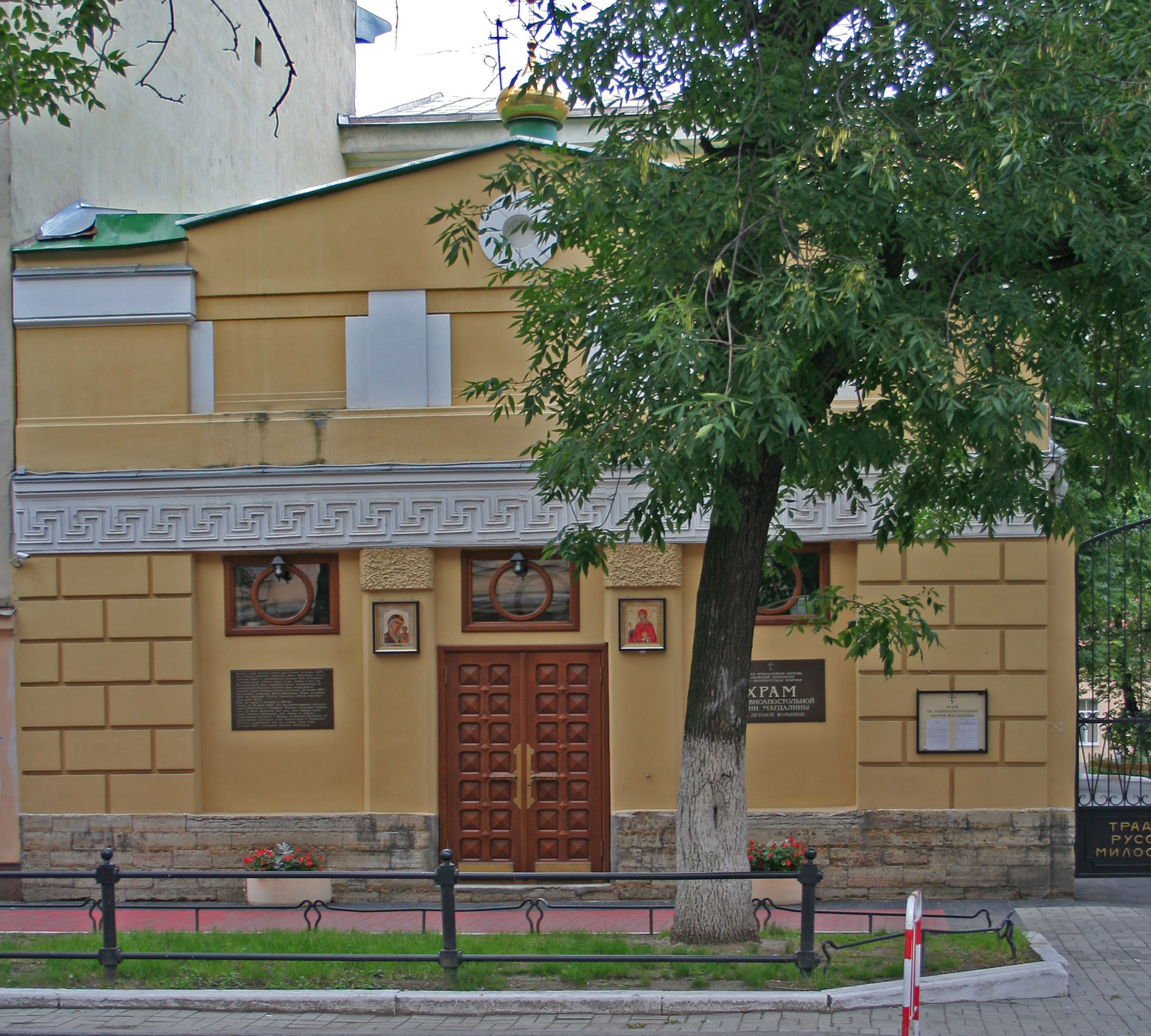 Saint Petersburg, Maria Magdalena church by the children hospital on Vasilievsky Island.